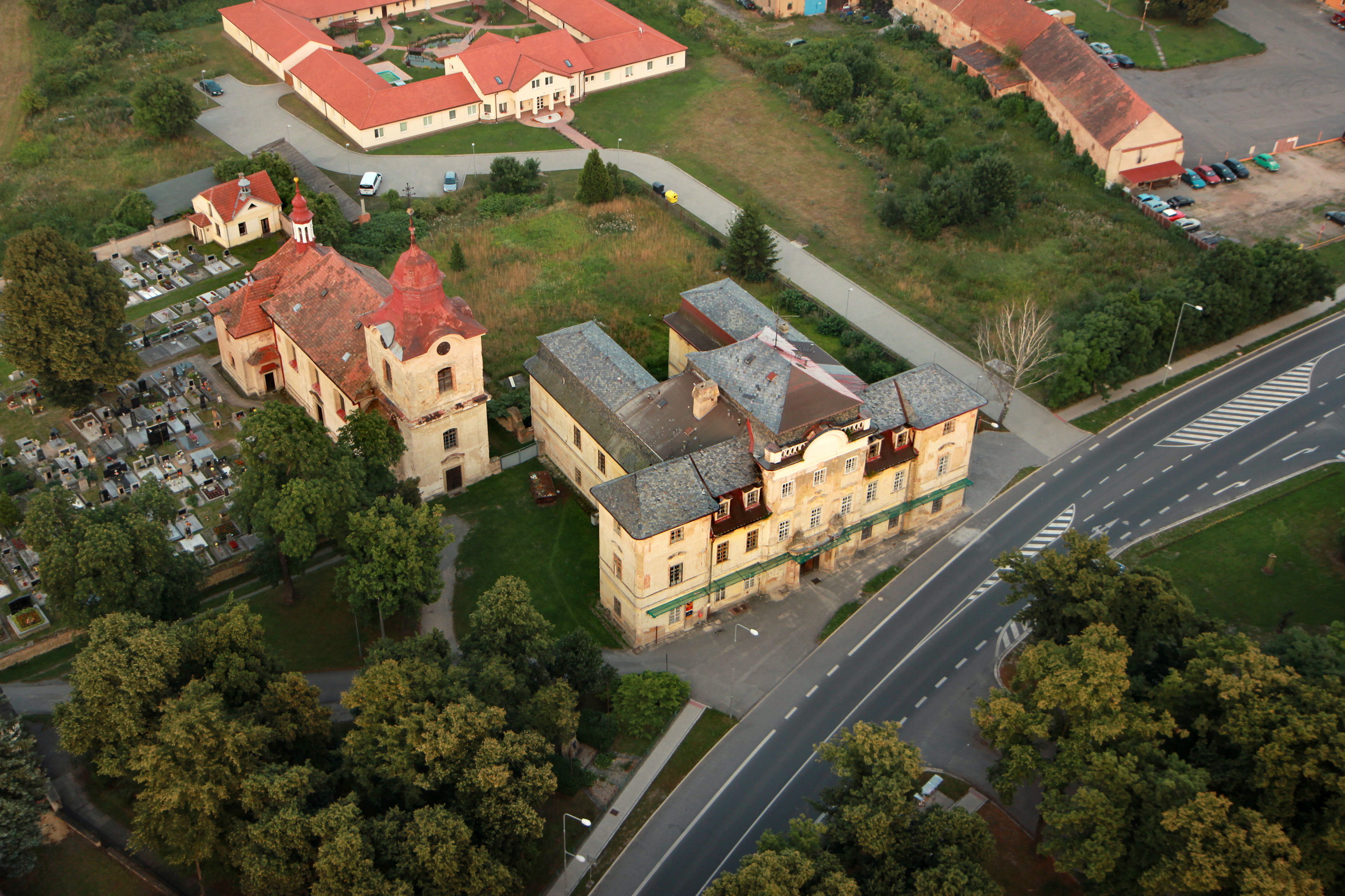 Luštěnice Castle in Luštěnice village, Czech Republic